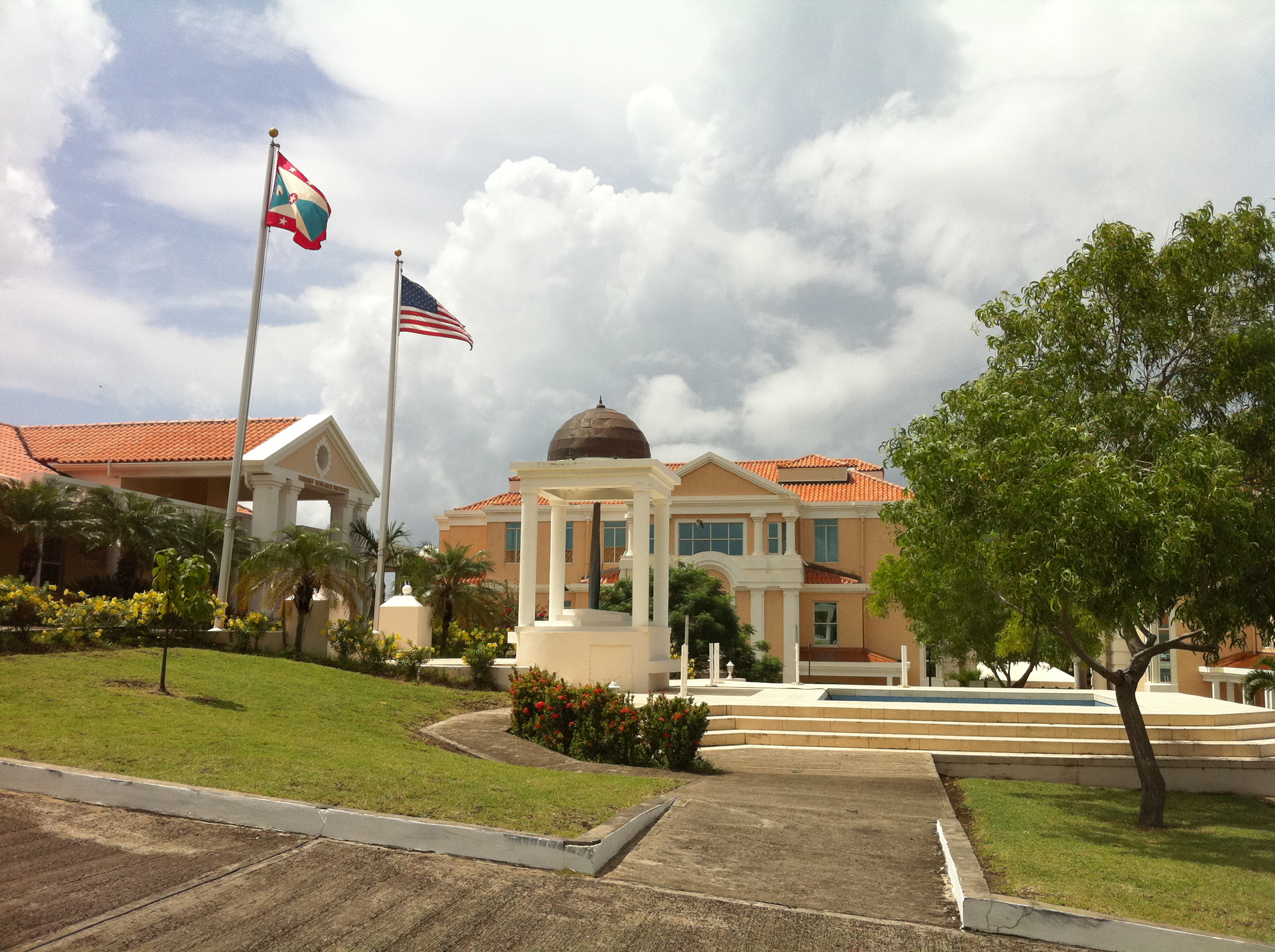 The memorial at St. George's University for the servicemen killed during the Invasion of Grenada. The memorial is located at True Blue Campus next to Founders Library, in front of the WINDREF center and Anatomy Department buildings.